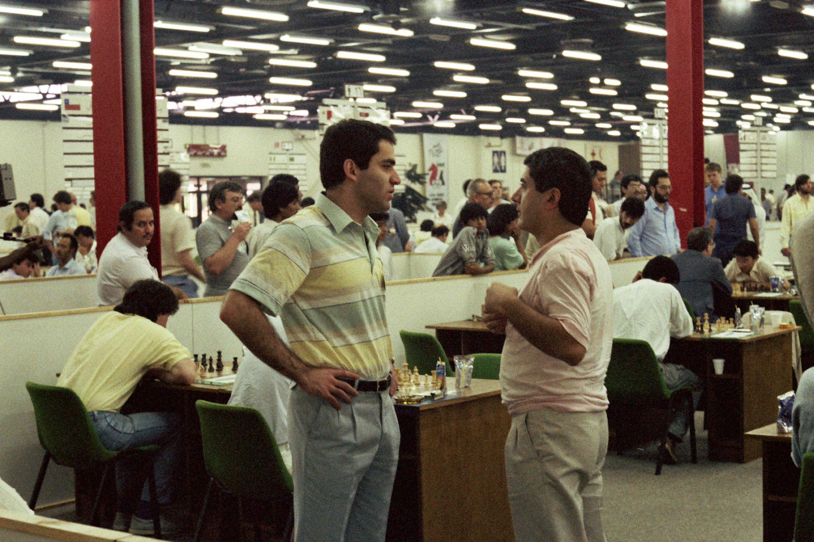 Chess Olympiad 1986 (Garry Kasparov, Rafael Vaganian, debating in the tournament hall), Photographer Gerhard Hund.